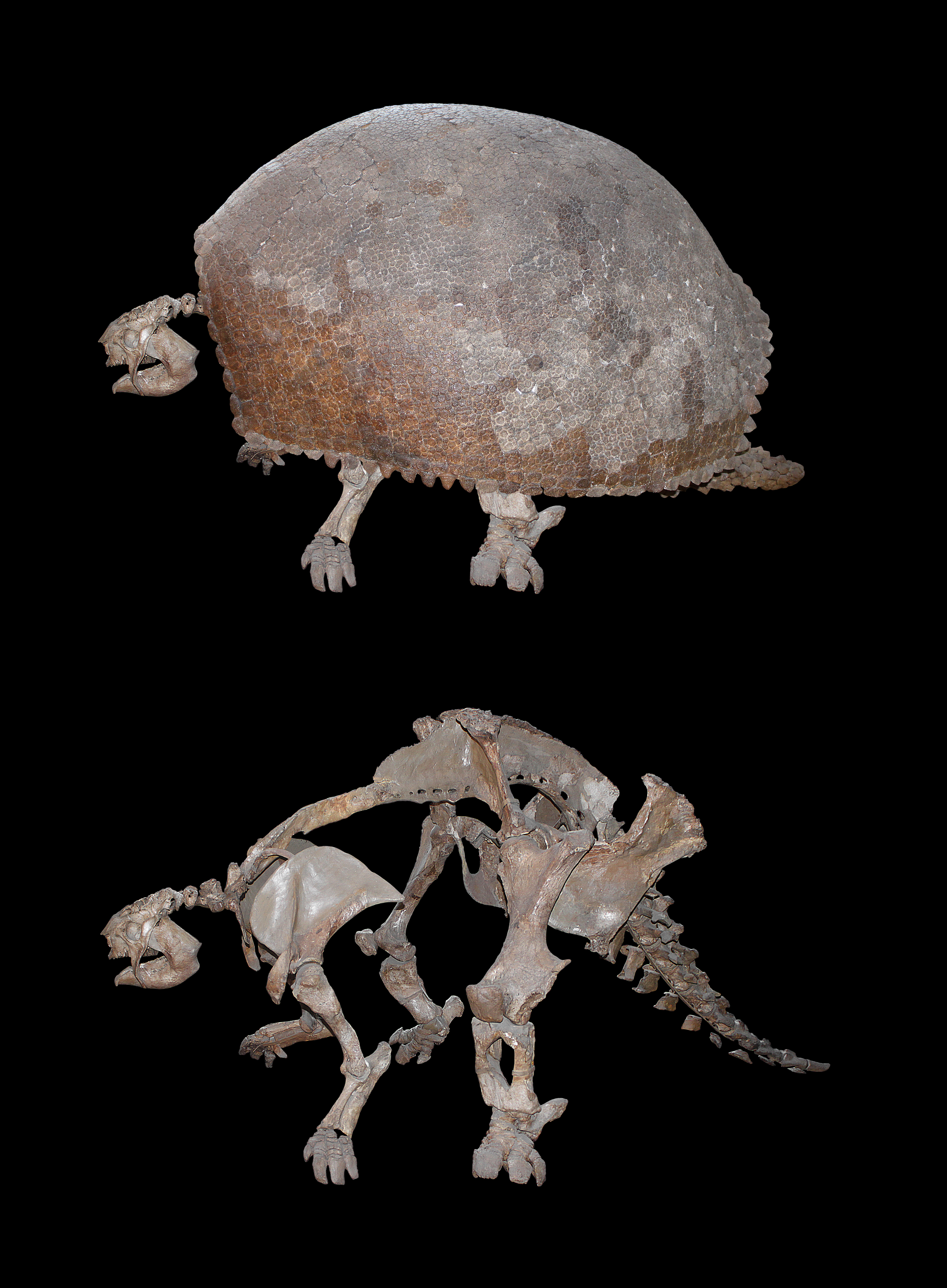 Skeleton and shell of Glyptodon clavipes, exhibited in the Museum für Naturkunde in Berlin.